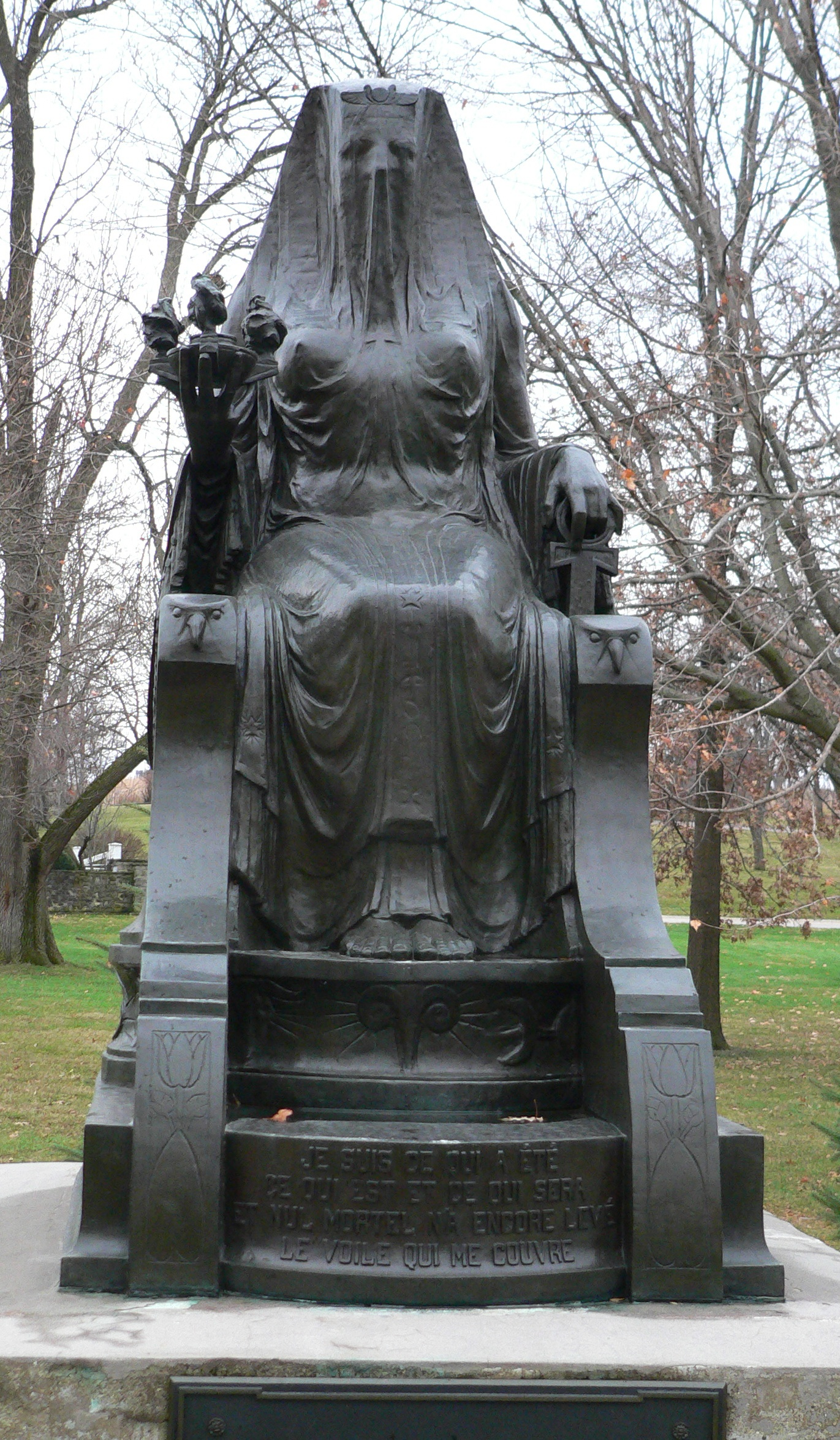 Statue of Isis by Auguste Puttemans (1866–1927). The statue was given to Herbert Hoover by the people of Belgium in 1922 and was originally displayed at the Thomas Welton Stanford Art Gallery. Since 1939 it has been located at the Herbert Hoover National Historic Site in West Branch, Iowa.